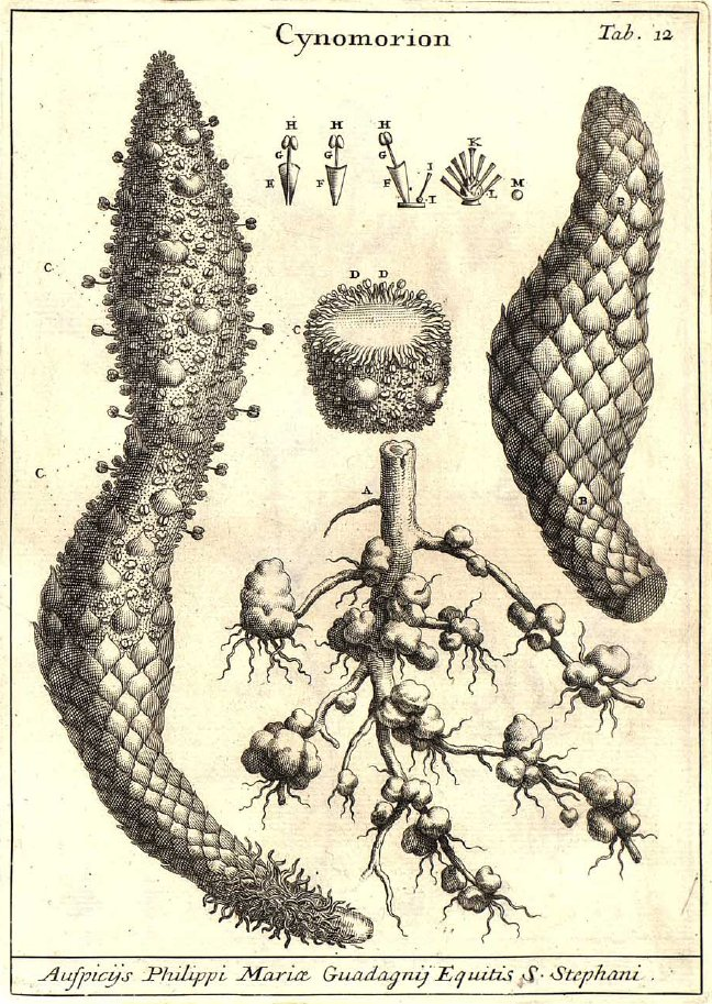 Illustration of "Cynomorion purpureum, officinarum" (= Cynomorium coccineum), plate 12 in the cited work of Micheli